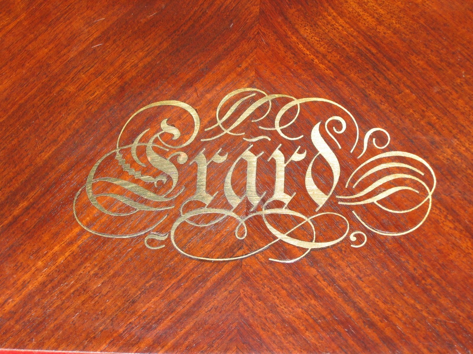 The logo of an Erard Piano Picture by Gérard Delafond